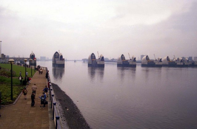 The Thames Barrier at Greenwich